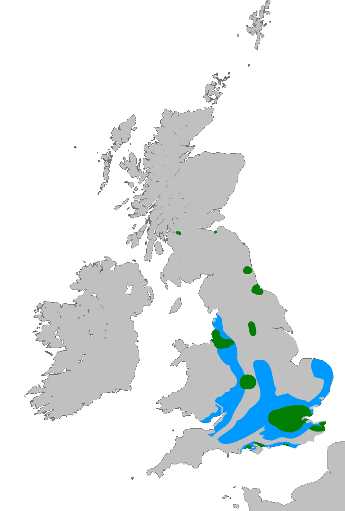 Distribution of the rose-ringed parakeet (psittacula krameri) in Great Britain (based on RSPB map))